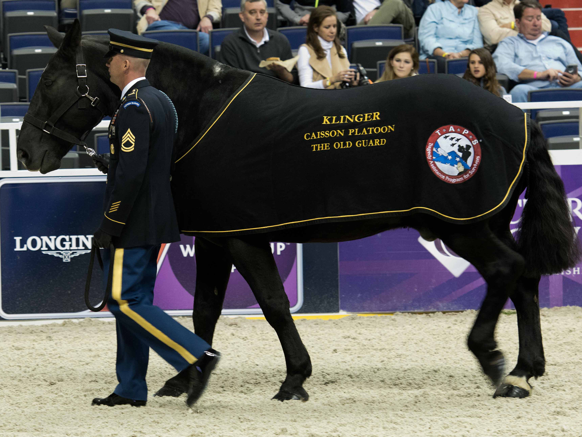 The 57th Annual Washington International Horse Show hosted its 5th Annual Military Appreciation Night, Oct. 23 in Washington, D.C. The event featured members of the 3d U.S. Infantry Regiment (The Old Guard). Events included an Army vs. Navy celebrity barrel racing competition and a guest appearance by Klinger, one of The Old Guad Caisson Platoon's horses. (Photo by Spc. Brandon C. Dyer)